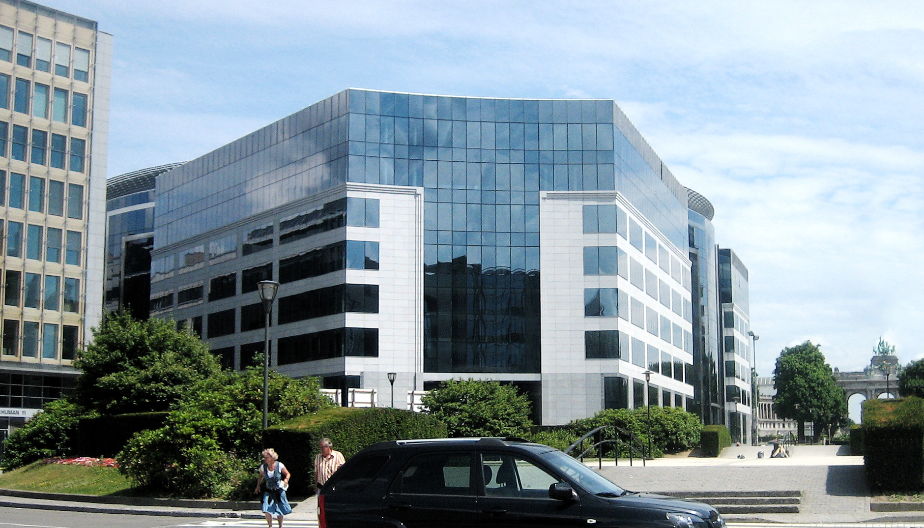 Seat of the European External Action Service 20090705